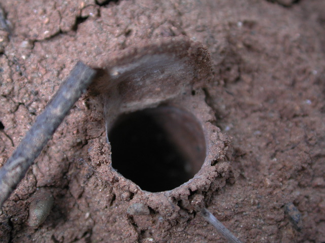 Aliatypus californicus trapdoor, opened, northern California.